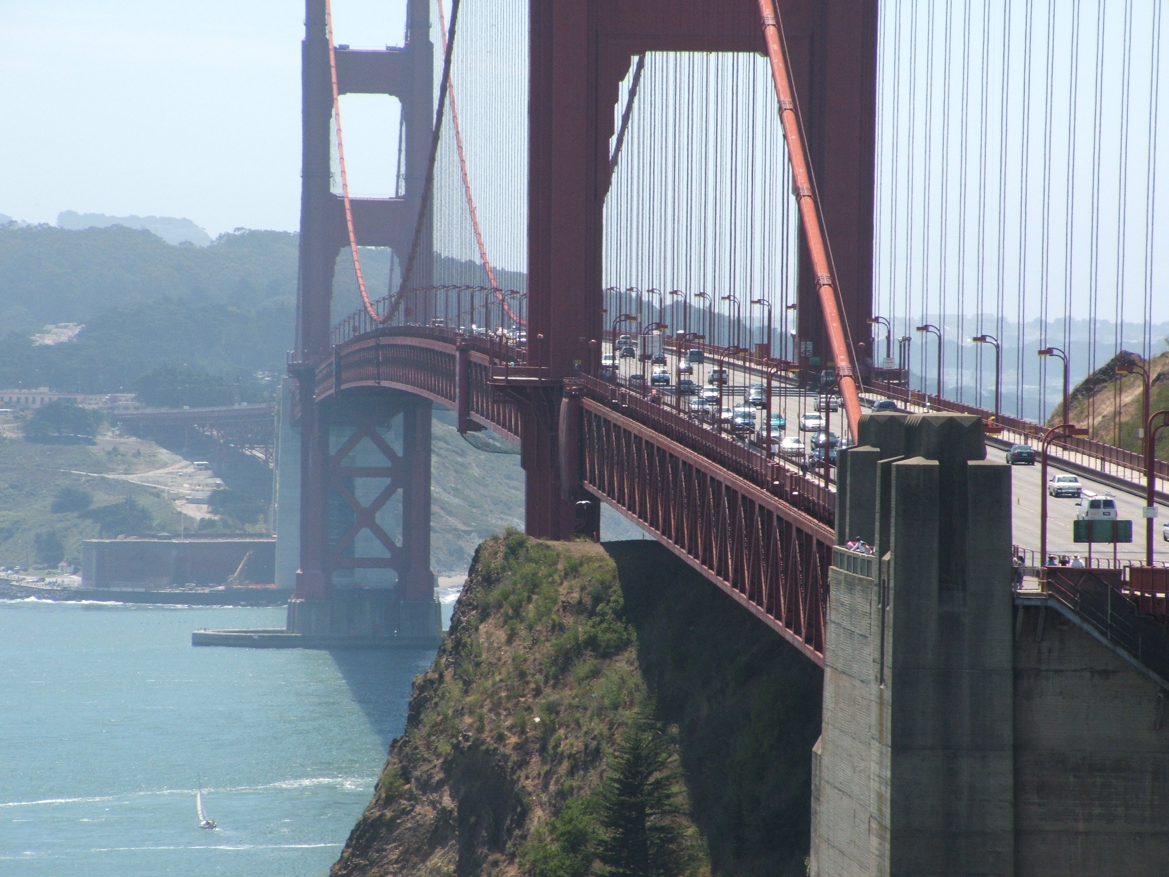 Golden Gate Bridge architecture